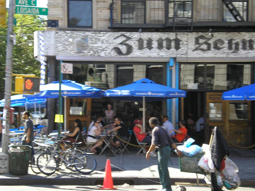 Signs of gentrification – such as trendy bars juxtaposed against the more traditional denizens of Loisaida such as the homeless – dot the landscape of Avenue C.The restaurant/bar was Zum Schneider (opened August 2000 - February 2020, on 107 Ave C).